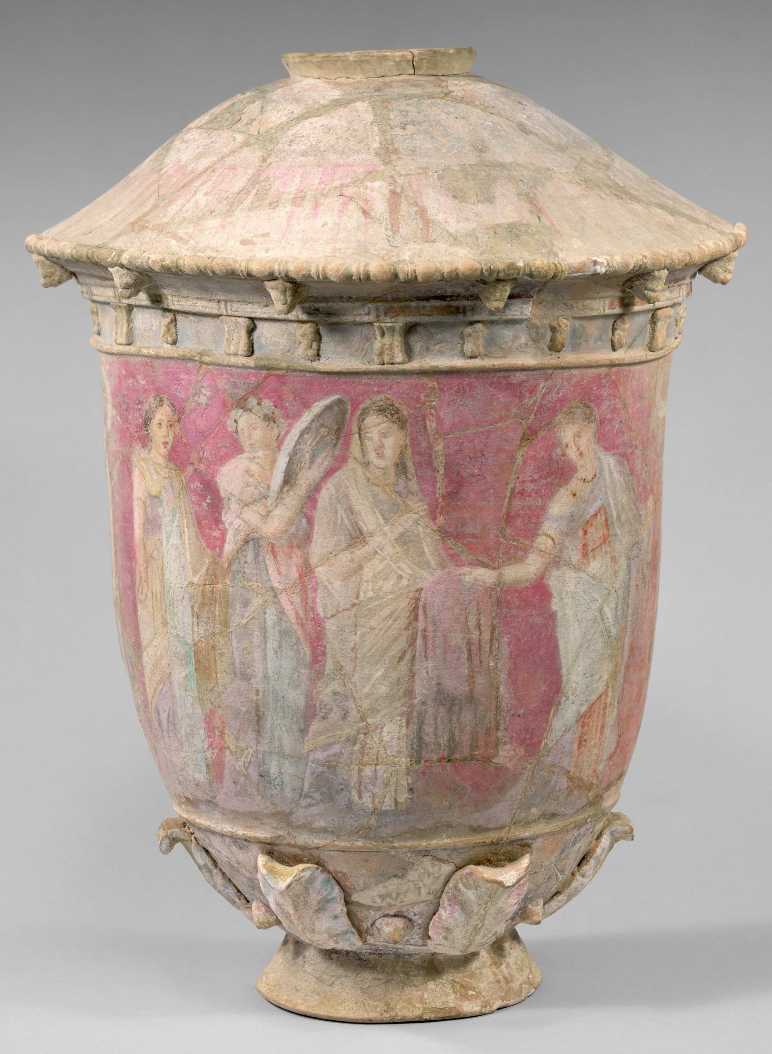 Greek, Sicilian, Centuripe; Vase, funerary, wedding scene; Vases